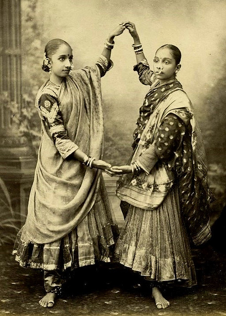 Many examples of clothing & jewellery from India were exhibited at the London Universal Exhibition of 1872 and this photograph may have been one of those shown to demonstrate the way it was worn.